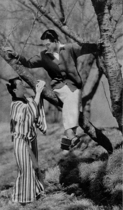 Kinuyo Tanaka and Ken Uehara in Shuppatsu (出発) directed by Hiroshi Shimizu